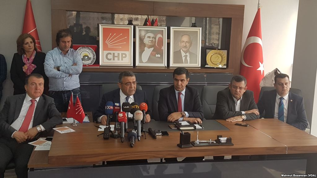 CHP İstanbul MP Sezgin Tanrıkulu, Kırklareli MP Vecdi Gündoğdu and Manisa MP Özgür Özel at a press conference following referendum campaigning in Diyarbakır.